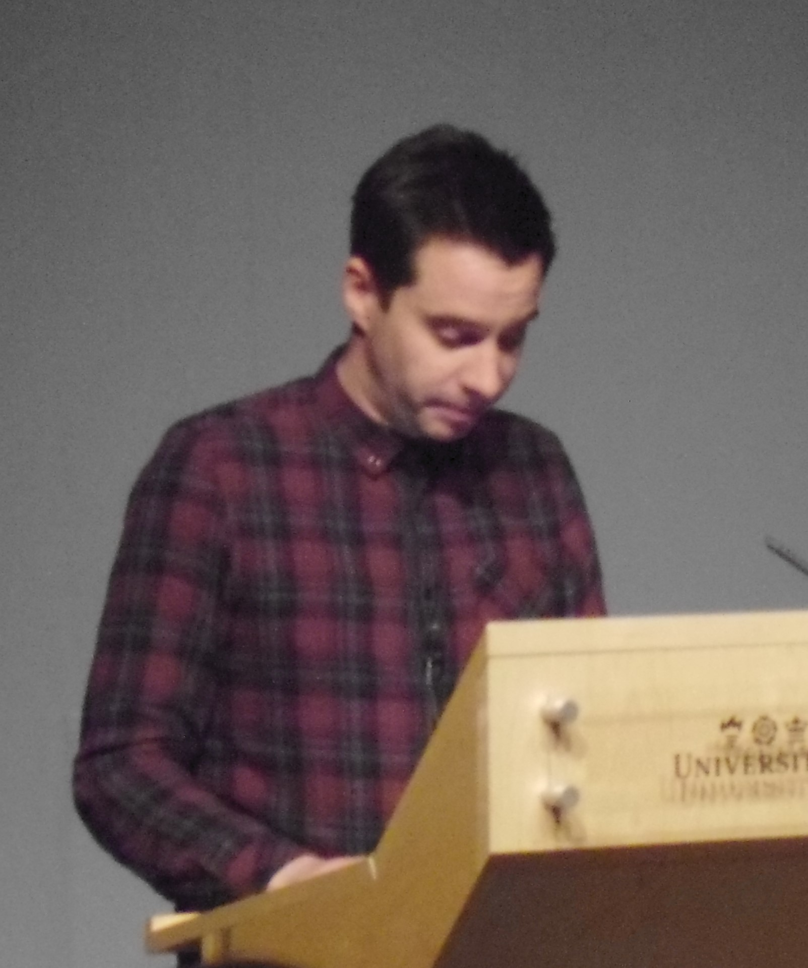 James Graham gives a speech at the University of Hull